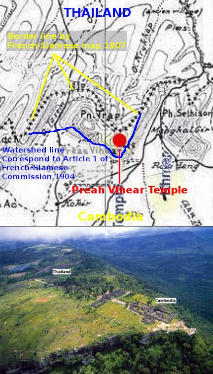 Prasat Preah Vihear and border lines on dispute between Thailand and Cambodia that court ruled that the temple belonged to Cambodia.